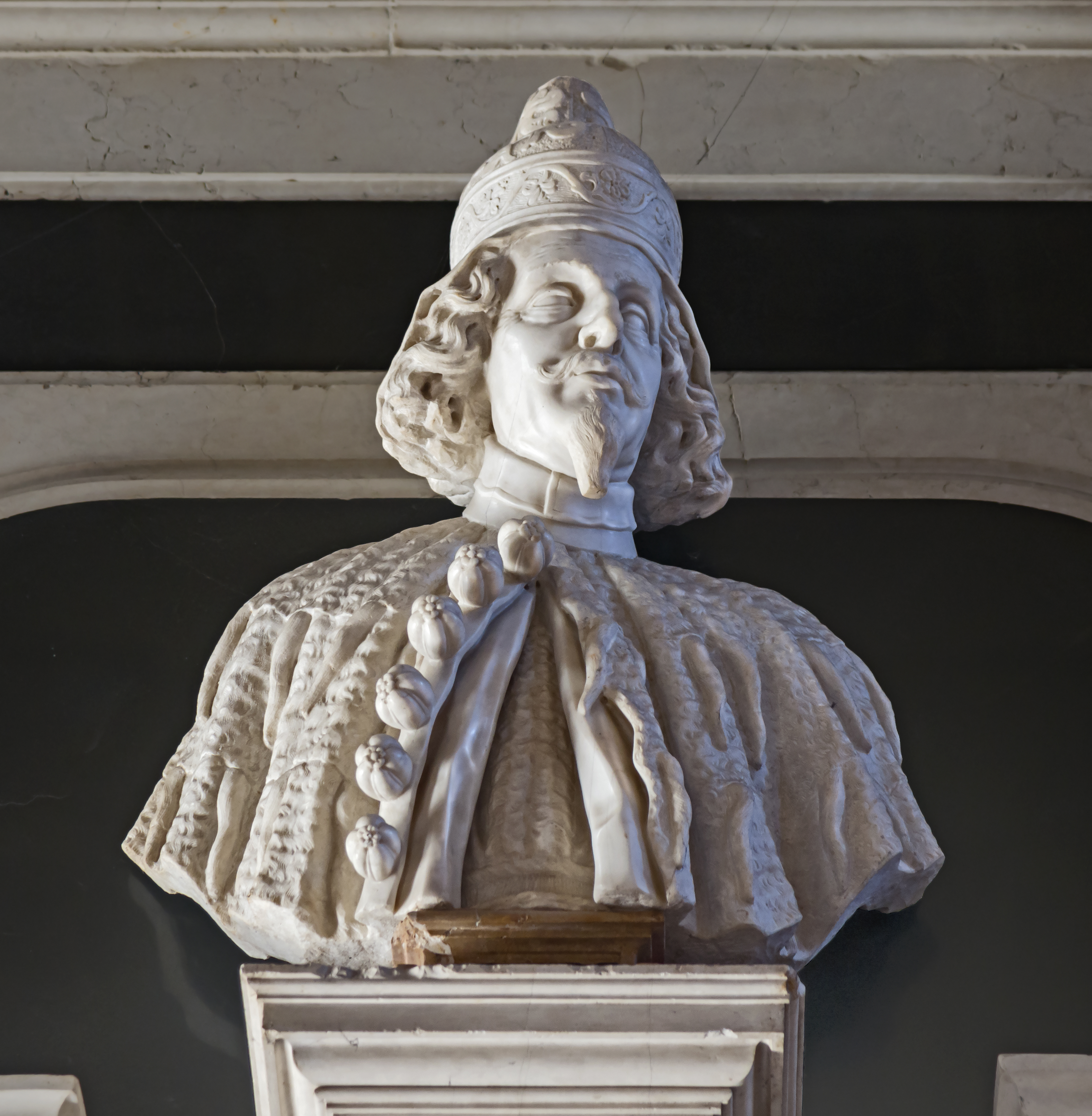 San Francesco della Vigna Venice, Chapel Contarini, bust of the Doge Alvise Contarini by Antonio Gai.